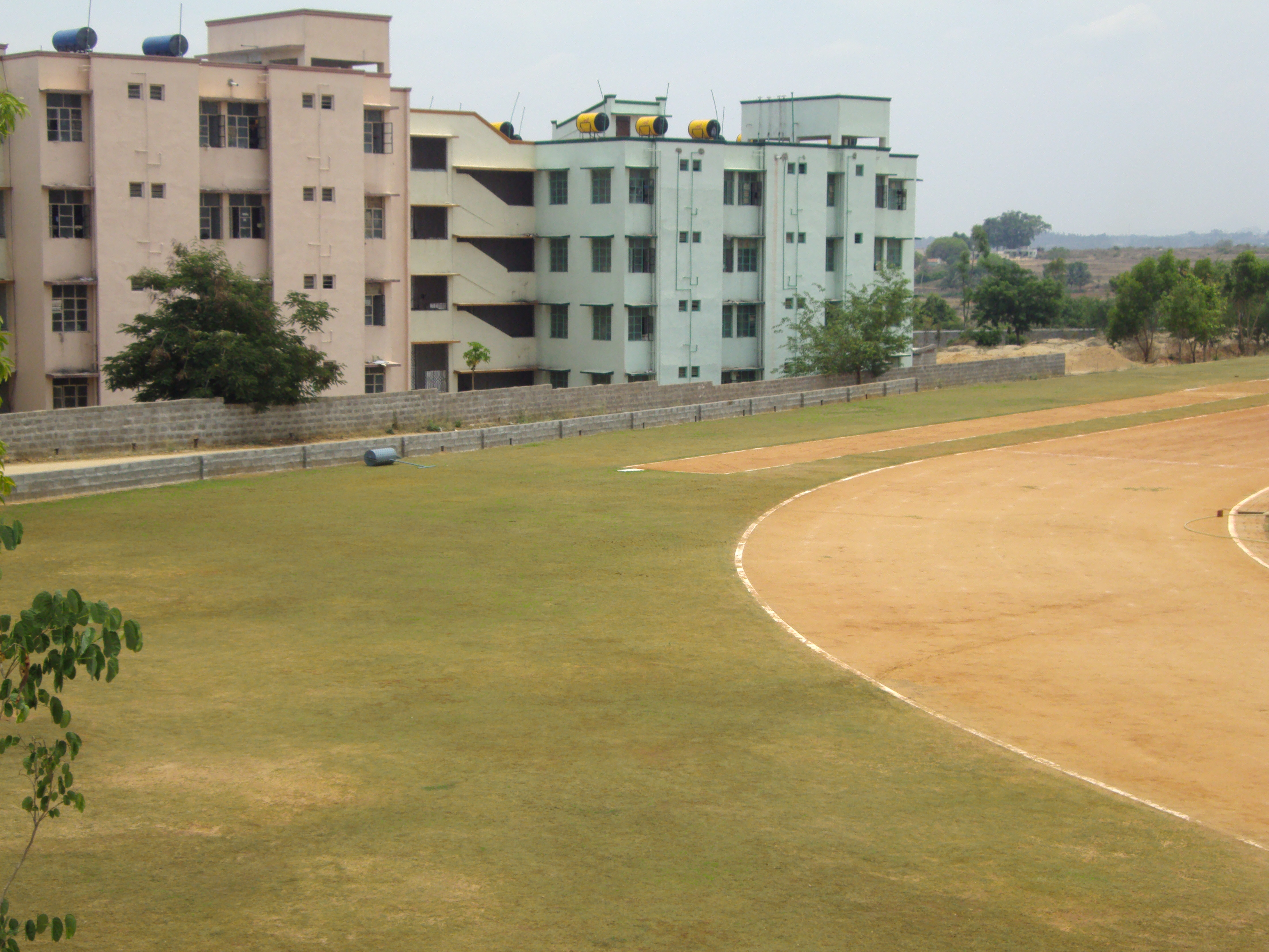 Hostel view of 8 lane Athletic Track.